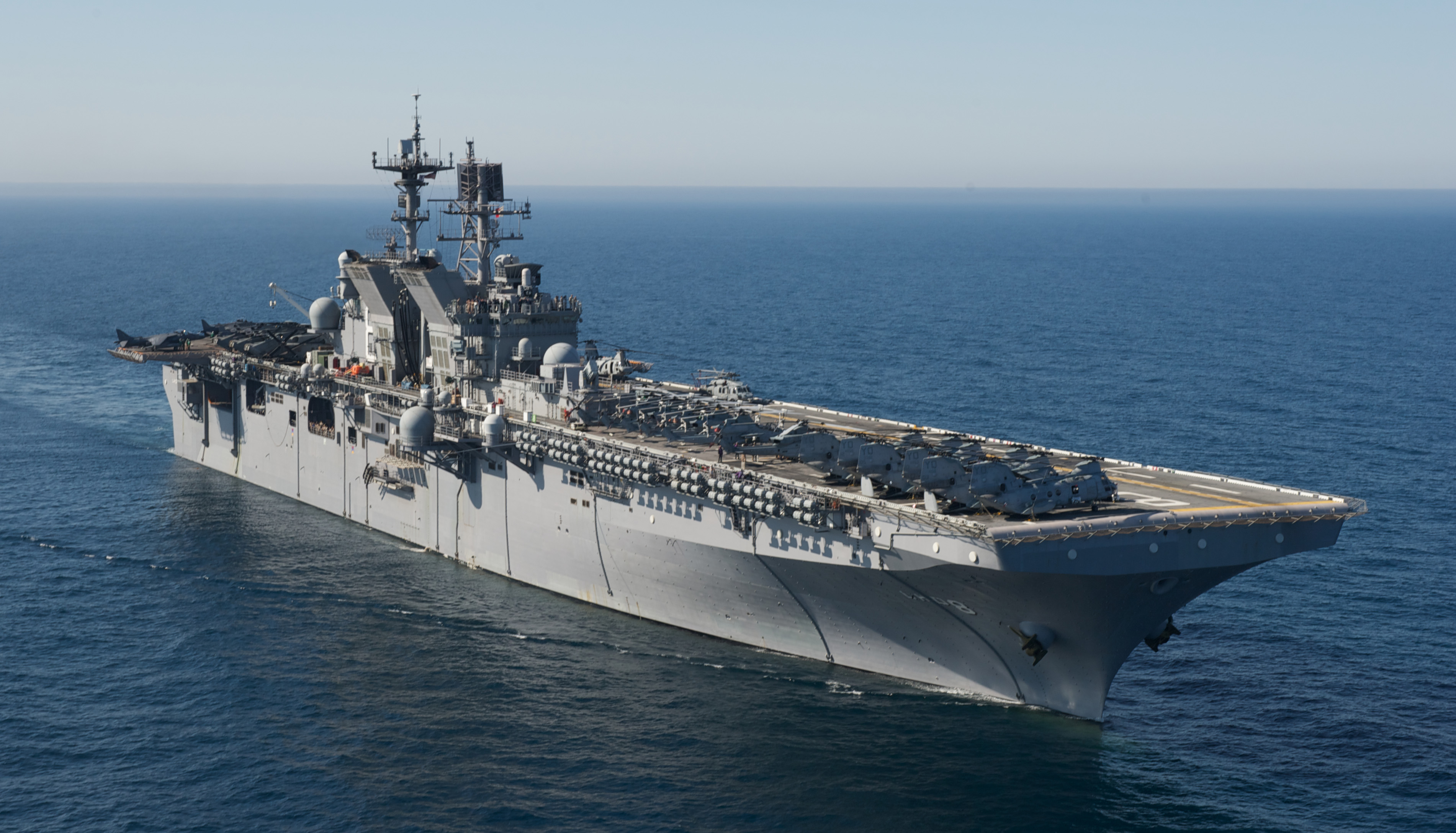 PACIFIC OCEAN (Sept. 7, 2011) The amphibious assault ship USS Makin Island (LHD 8) transits off the coast of Southern California conducting flight operations as part of Composite Training Unit Exercise. The exercise is designed to test capabilities and ensure overall readiness before deployment. (U.S. Navy photo by Chief Mass Communication Specialist John Lill/Released)